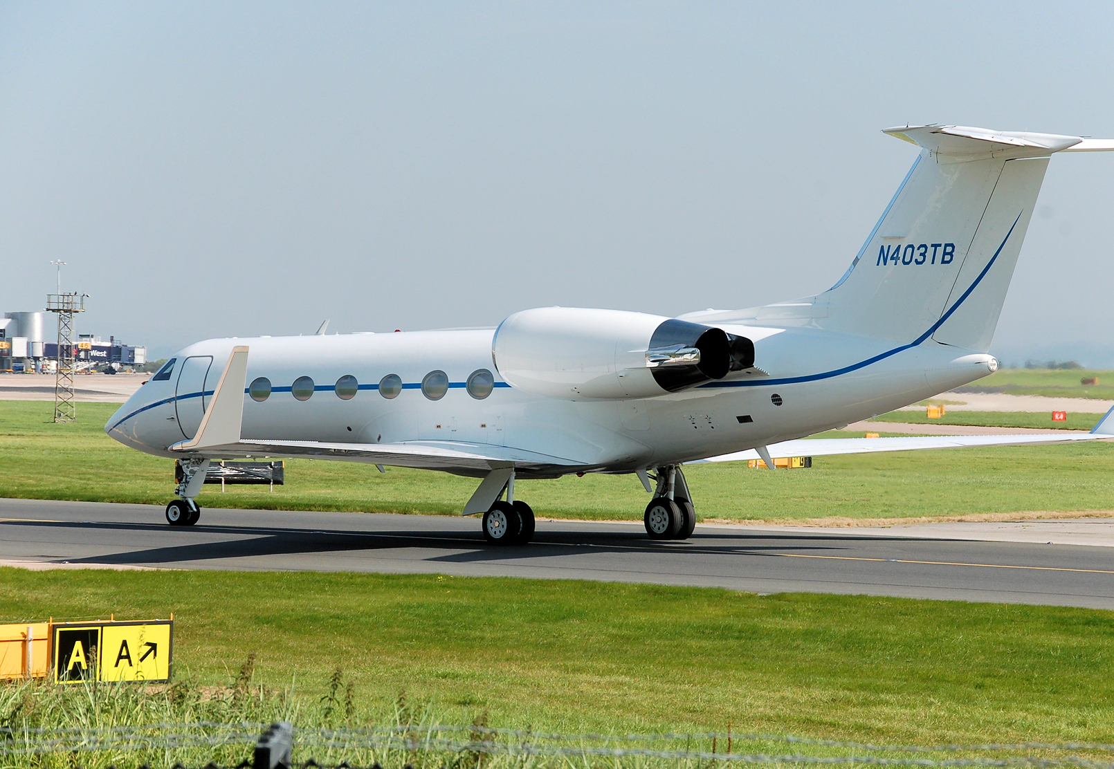 Gulfstream G-IV business jet (N403TB) taxis past the Aviation Viewing Park, after landing at Manchester Airport, England.